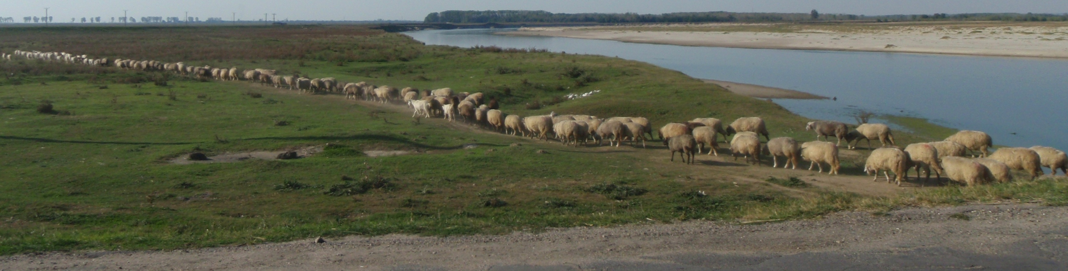 Olt river between Izlas and Turnu Magurele